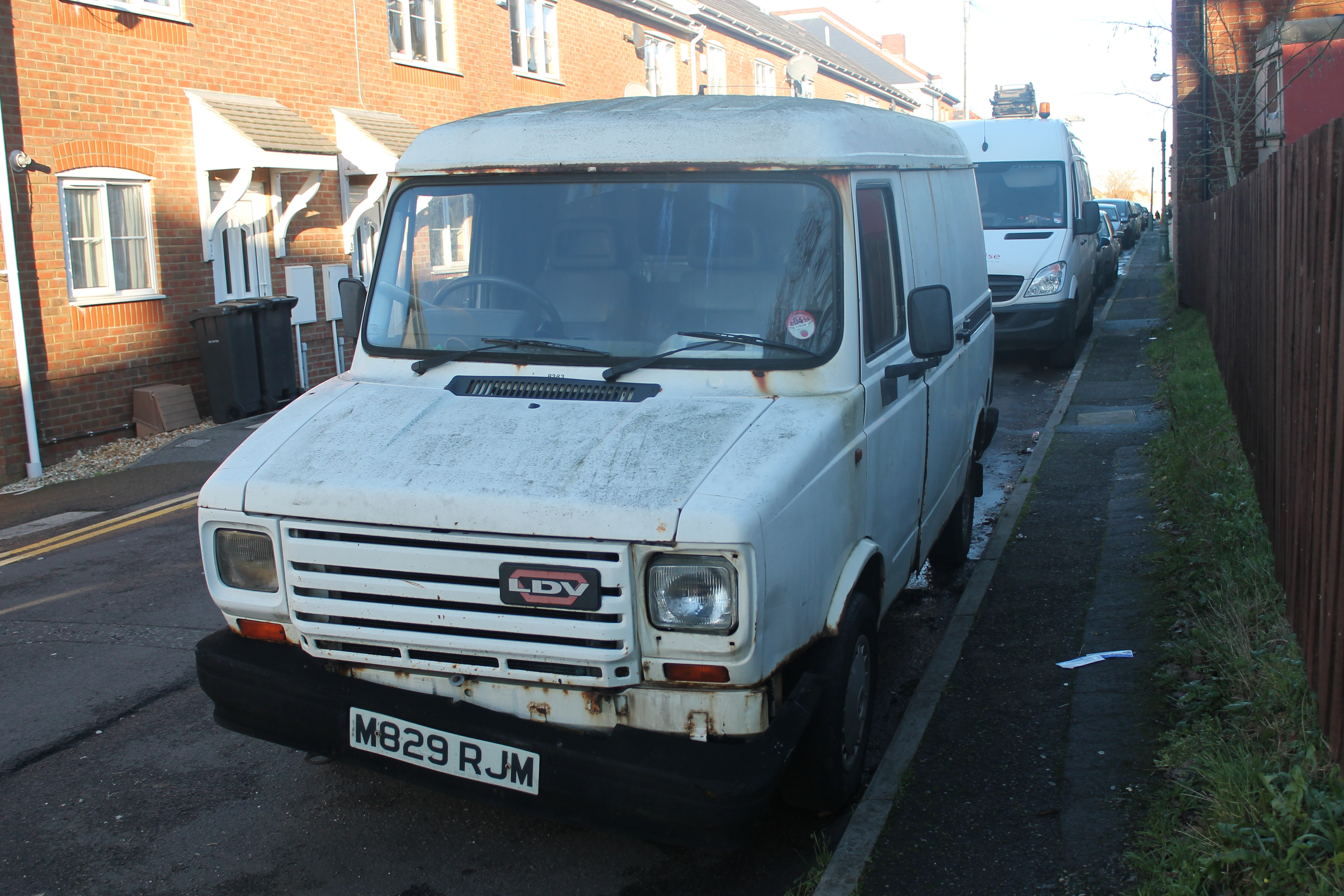 This was a right banger. LDVs of this age have become very difficult to spot in van format like this one now. It was looking so dated by this time too- essentially it's an evolution of a Leyland Sherpa from the mid 70s. I can't see this thing surviving its next MOT, but you never know, you can be surprised! I bet it's done hundreds of thousands of miles in its lifetime. I believe this example is 2.8 tonnes? This was much less popular than the 2.6 and there are now just 22 of this spec on the road The vehicle details for M829 RJM are: Date of Liability 01 05 2014 Date of First Registration 17 02 1995 Year of Manufacture 1995 Cylinder Capacity (cc) 1900cc CO₂ Emissions Not Available Fuel Type HEAVY OIL Export Marker N Vehicle Status Licence Not Due Vehicle Colour WHITE Vehicle Type Approval Not Available